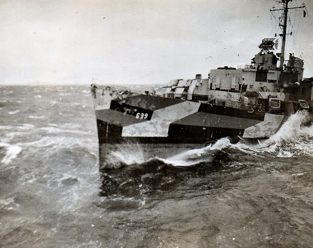 The U.S. Navy destroyer USS Waldron (DD-699) alongside the fleet oiler USS Manatee (AO-58), not visible, in Pacific Ocean, during during the Okinawa Campaign, in April or May 1945. Waldron is painted in Camouflage Measure 32, Design 9D.